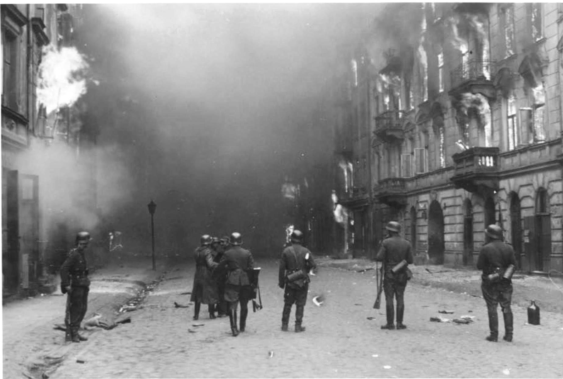 Stroop Report: a report written by Jürgen Stroop for Heinrich Himmler about liquidation of Warsaw Ghetto in May 1943.